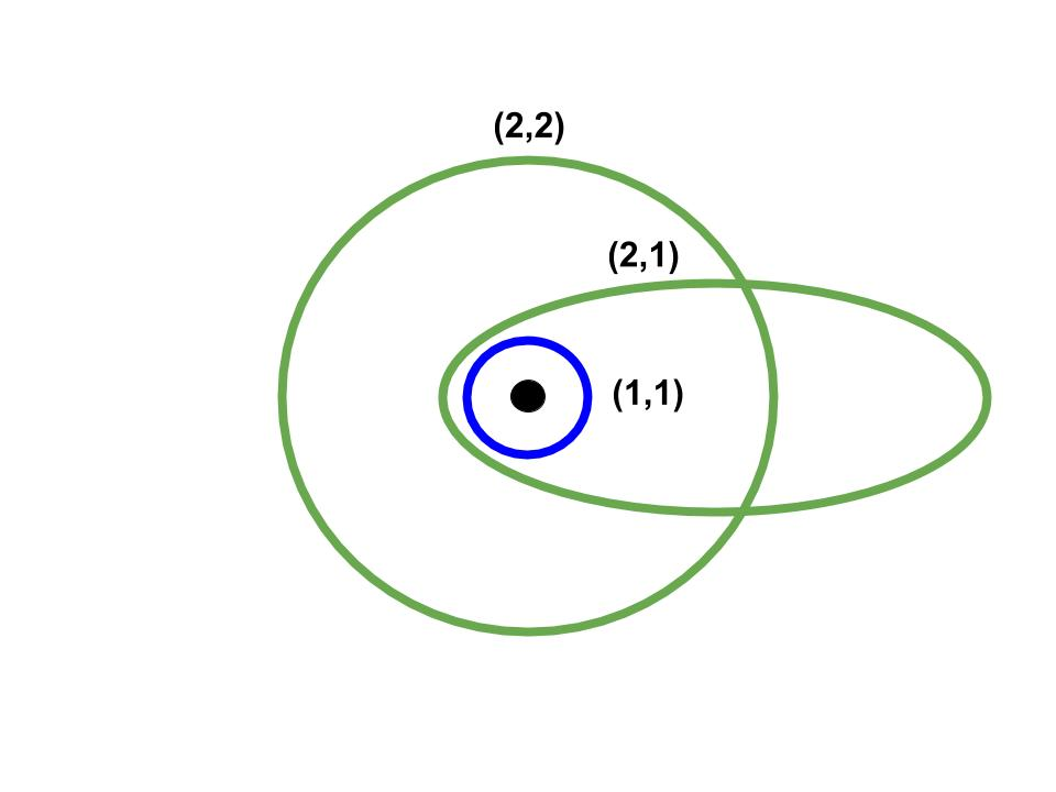 Three lowest electron orbits in hydrogen atom using Bohr-Sommerfeld quantization